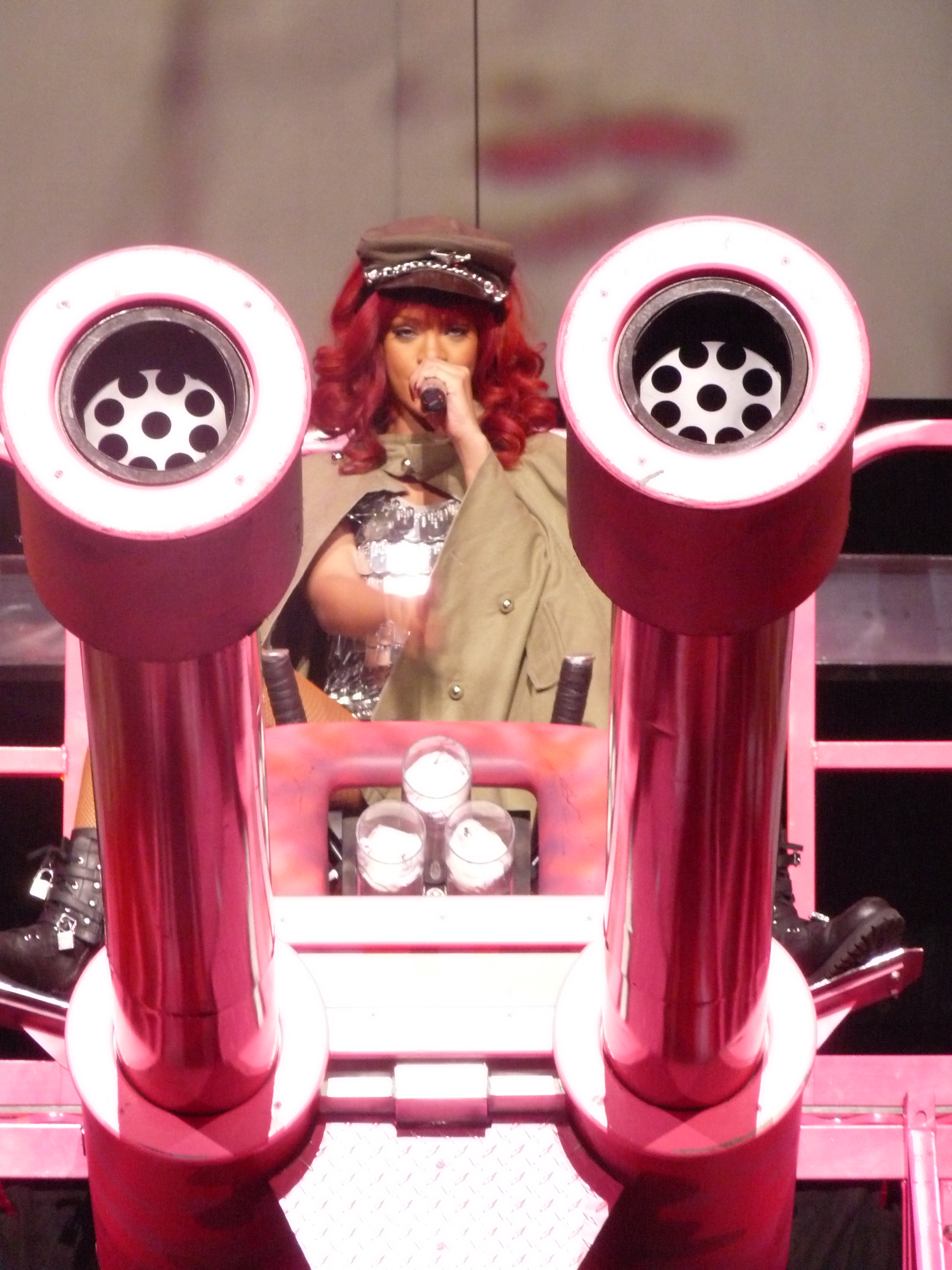 Rihanna live at Bankatlantic Center, Sunrise, Florida, on her tour The LOUD Tour. 14th July 2011